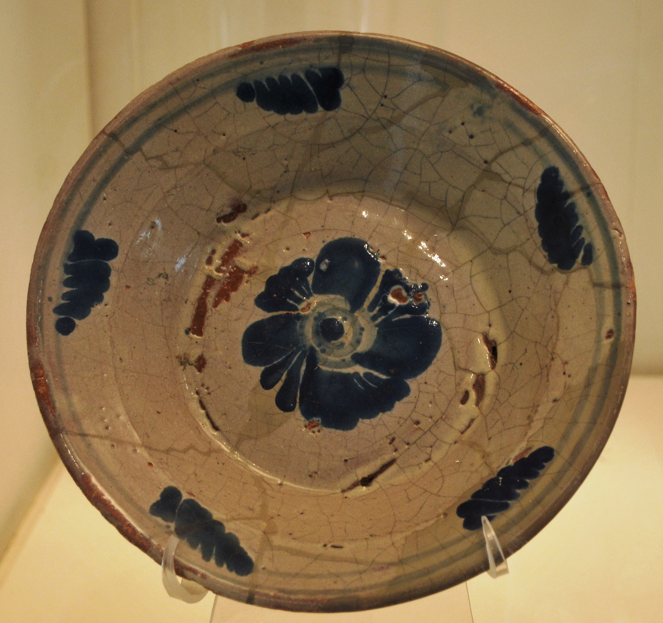 17 or 18th century Puebla pottery plate on display at the Museum of Artes Populares in Mexico City